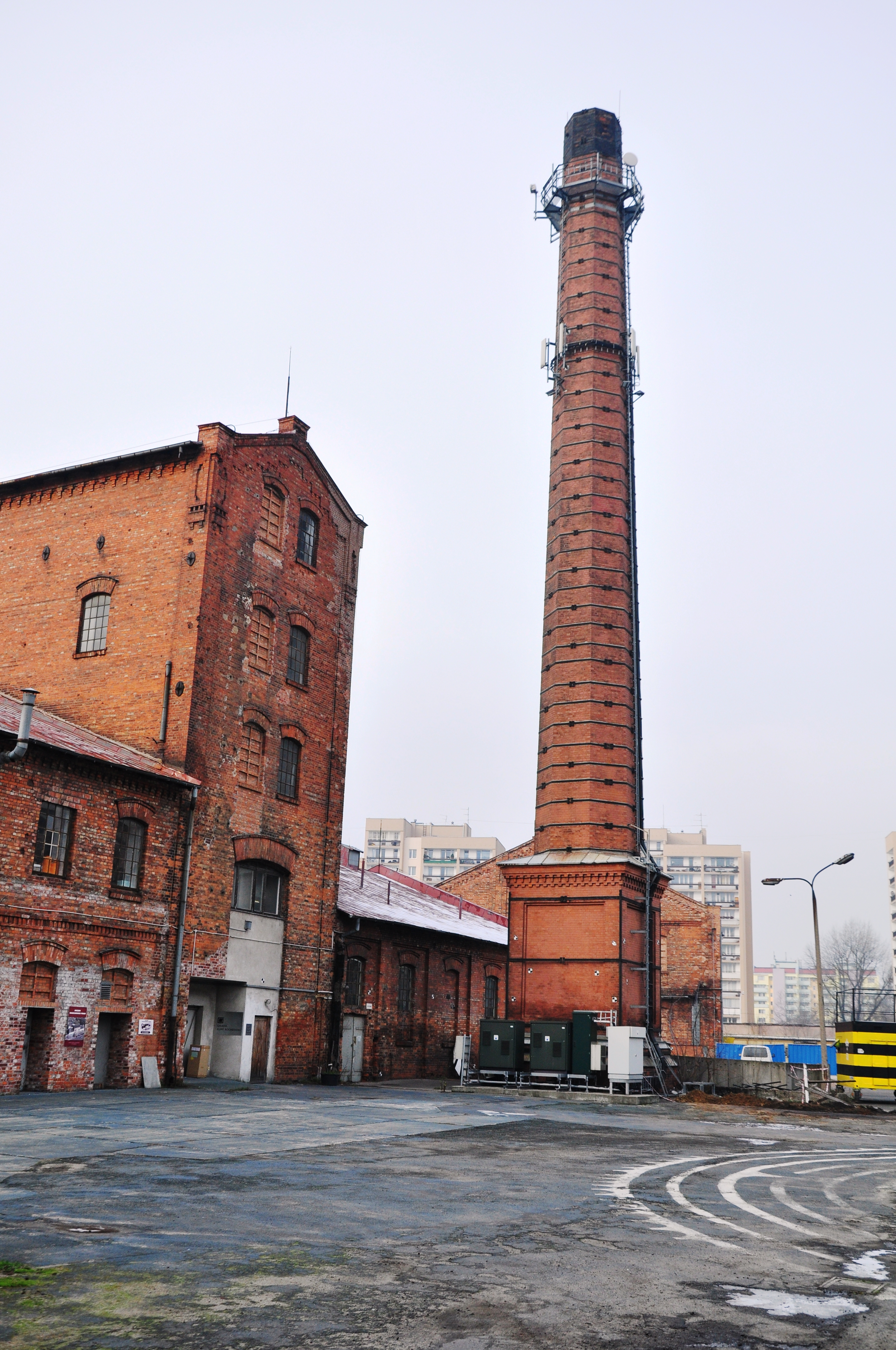 Factory Koneser, warsaw